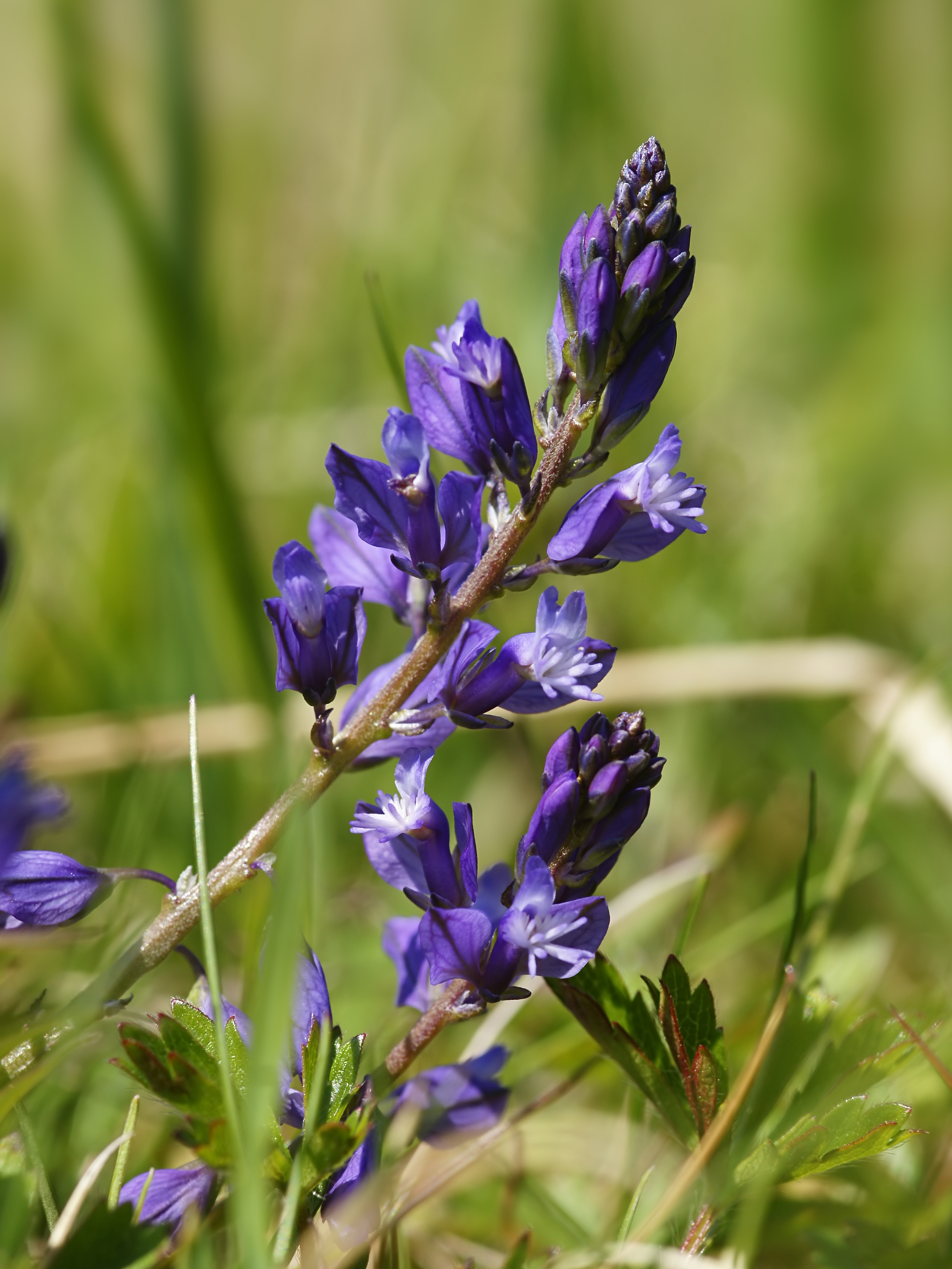 Common Milkwort, close to Dourbes